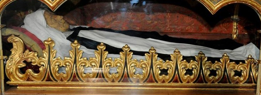 Cuerpo incorrupto de La Siervita de Dios, Sor María de Jesús de León y Delgado. Convento de Santa Catalina de Siena (San Cristóbal de La Laguna, Tenerife).jpg